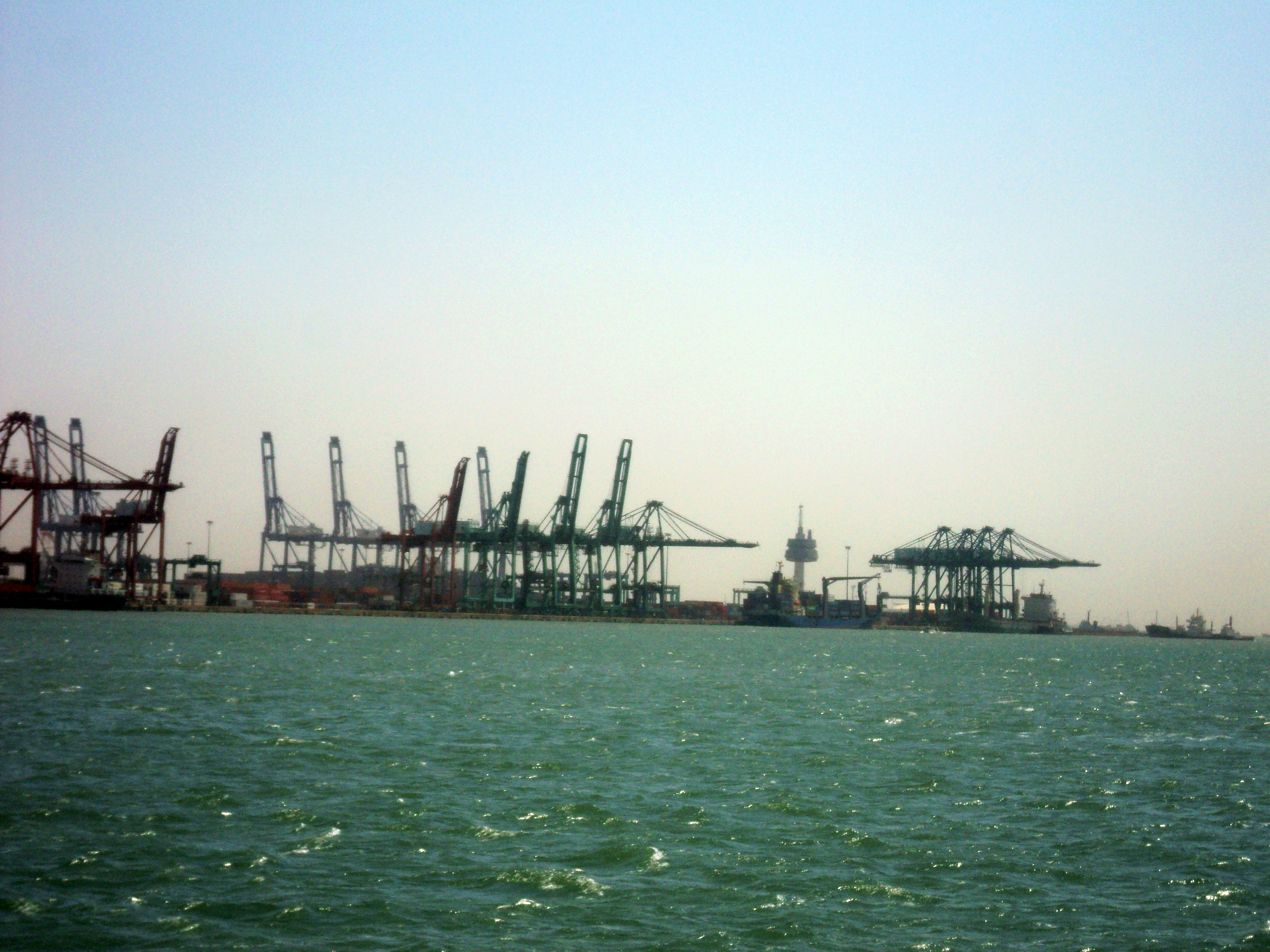 TCT (Tianjin Port Container Terminal), with red cranes, Tianjin Orient Container Terminal (with green cranes), and Tianjin Five Continents International Container Terminal (with blue cranes), all located in the East Pier of the Beijiang Port Area. Photo has been auto-color corrected (using IrfanView) to emphasize the color scheme of the unloading equipment.